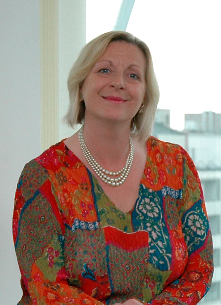 Linda Fabiani, Scottish Minister for Europe